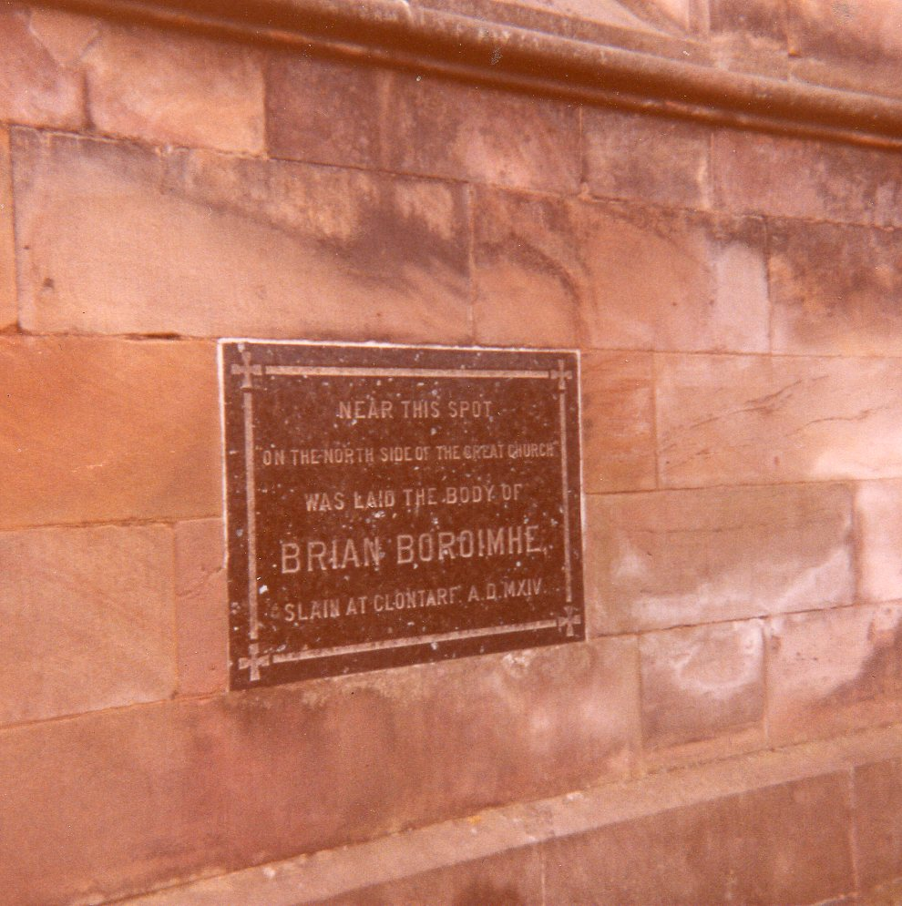 St Patrick's (COI) Cathedral, Armagh: Plaque on side of cathedral marking the nearly grave of king Brian Boru (Brian Boroimhe)